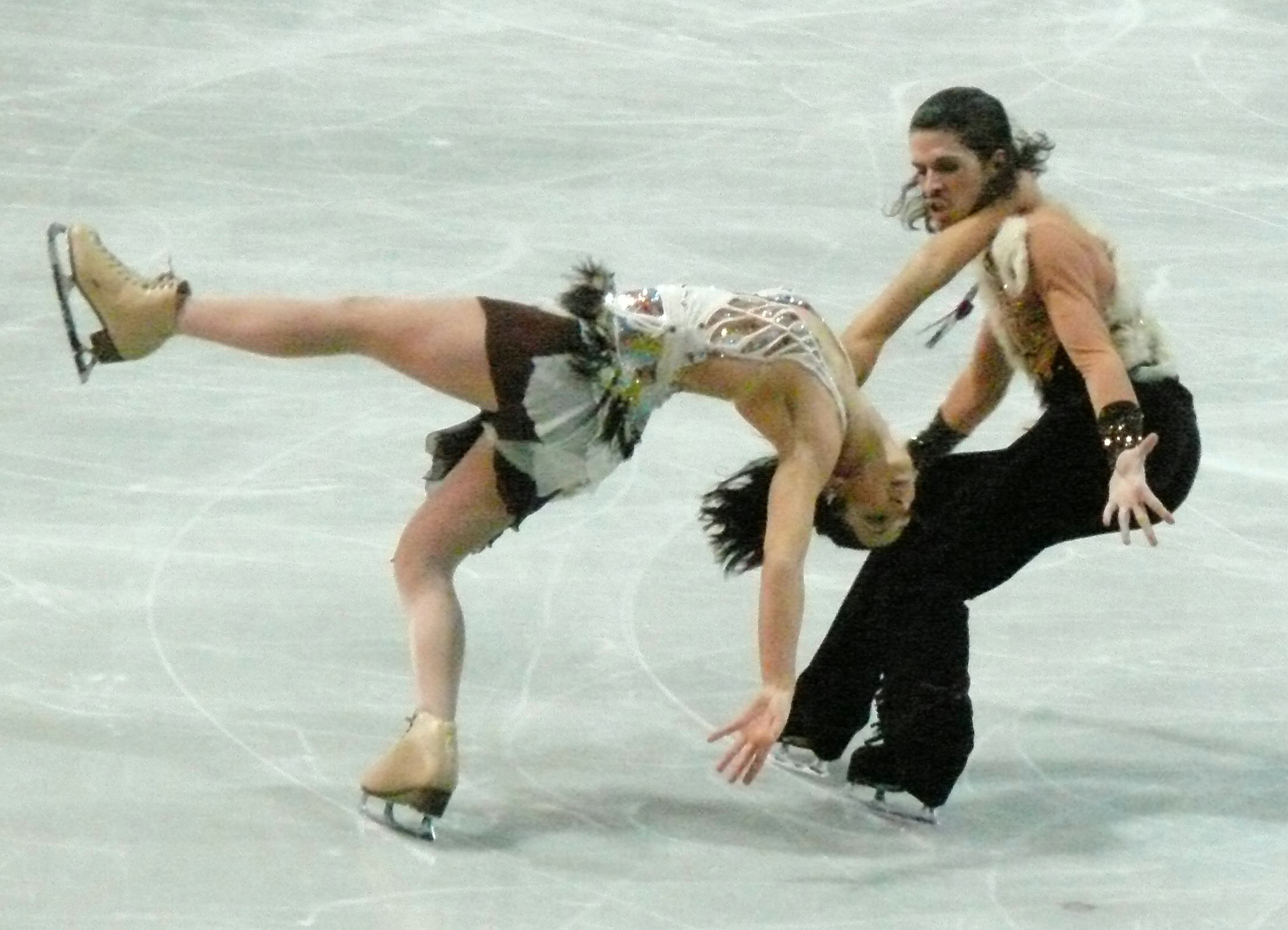 Sinead Kerr and John Kerr(GBR) at the free dance of the European Championships 2007 in Warsaw